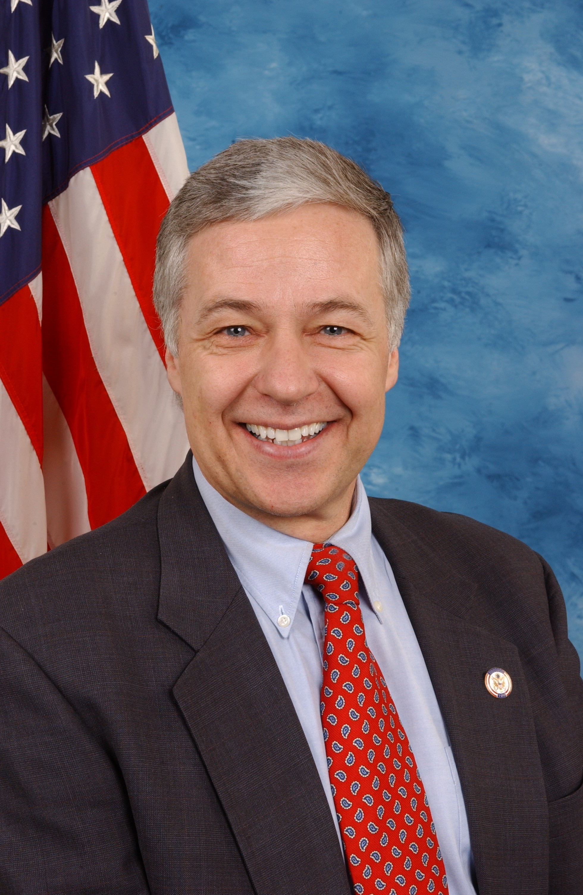 Mike Michaud, member of the United States House of Representatives.